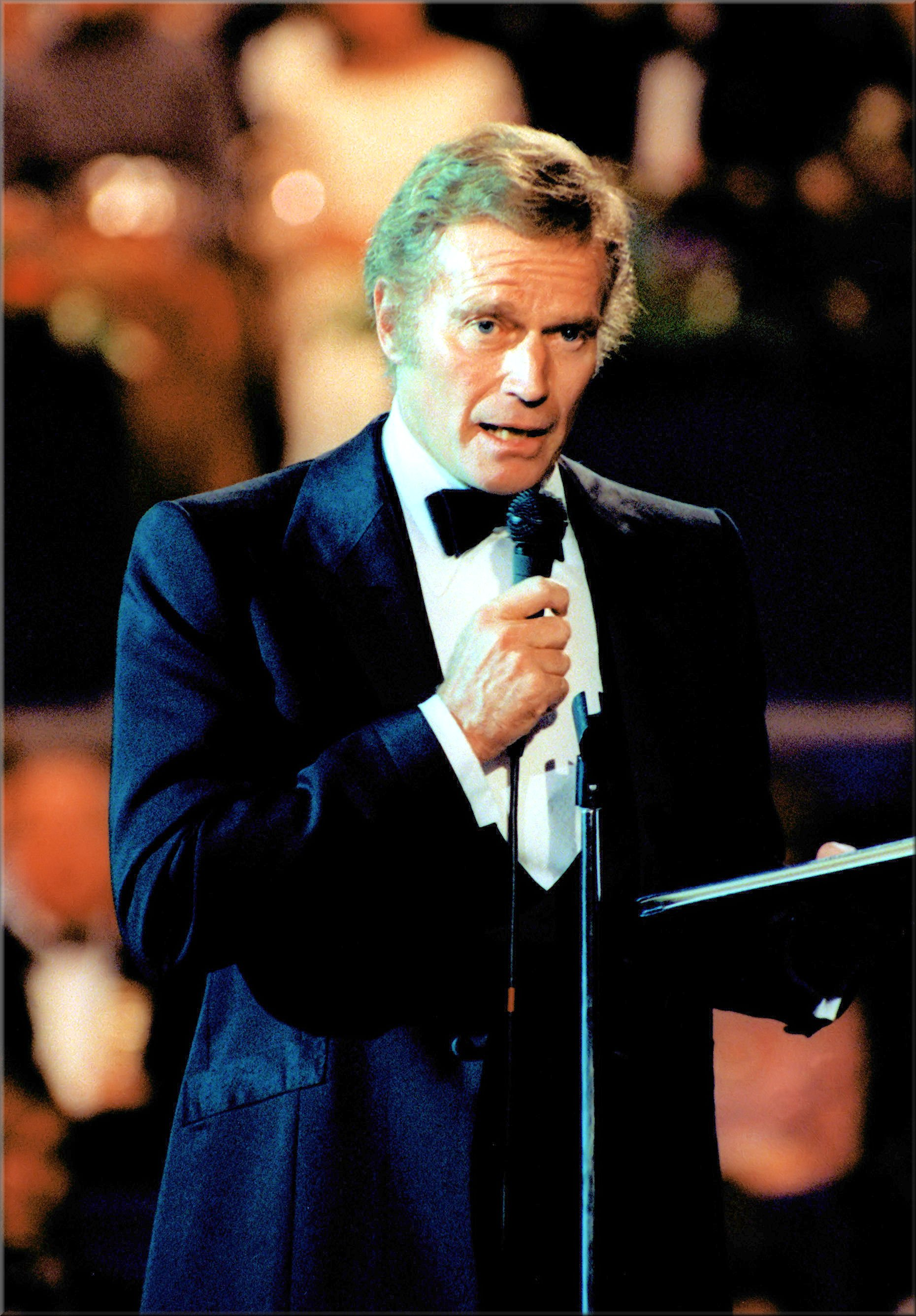 Actor Charlton Heston, president, American Film Institute, addresses the honored guests during the gala celebration at the Capital Center, during Inauguration Day in Landover, Maryland, USA.